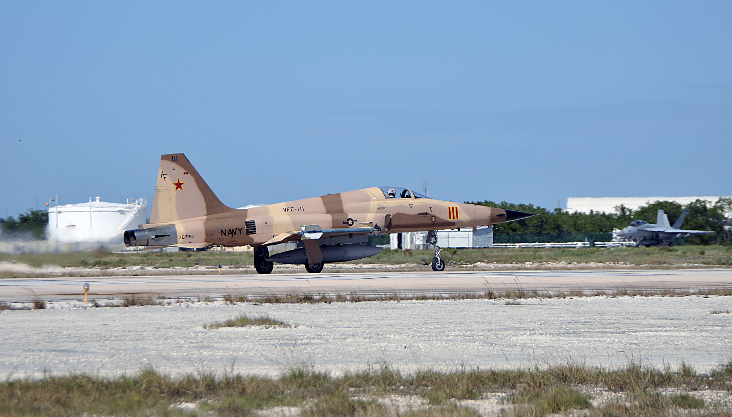 A U.S. Navy Northrop F-5N Tiger II (BuNo 761560, USAF s/n 76-1560, former Swiss J-3035) assigned to Fighter Squadron Composite (VFC) 111 "Sundowners" launches from Boca Chica Field of Naval Air Station Key West, Florida (USA).